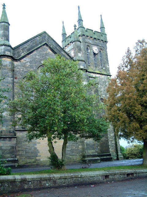 Errol Parish Church. Viewed from the south